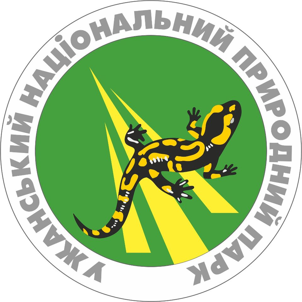 Uzhansky National Nature Park